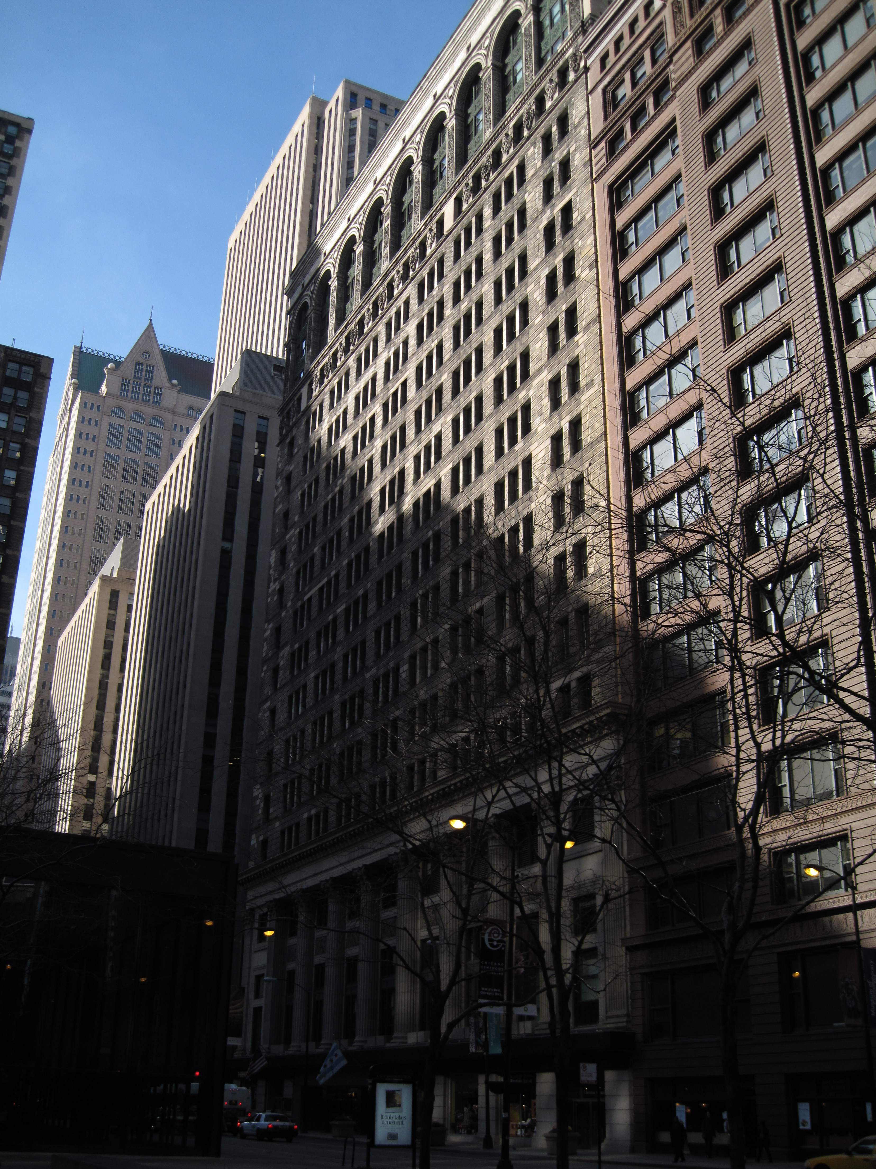 Former Chicago Public Schools headquarters, Chicago, Illinois. - 125 South Clark Street